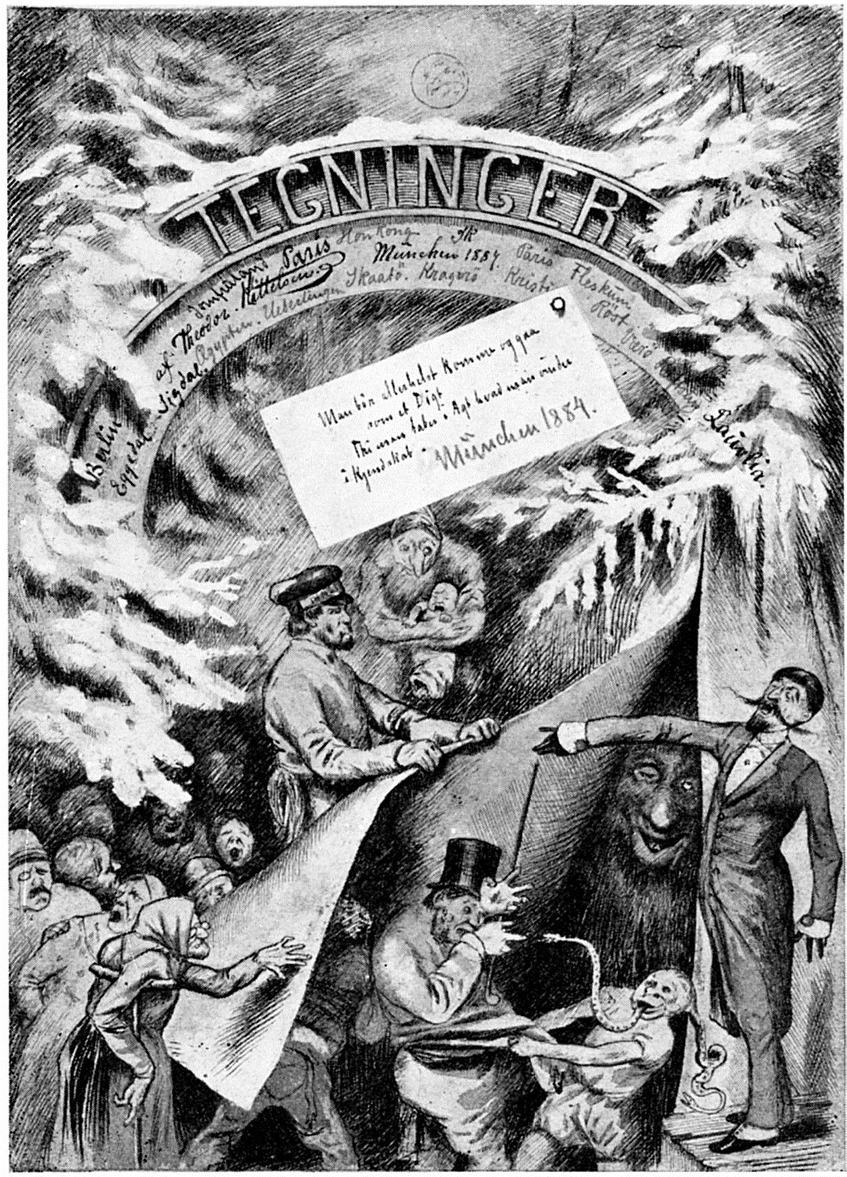 Theodor Kittelsen (1857 – 1914) Black and white sketches